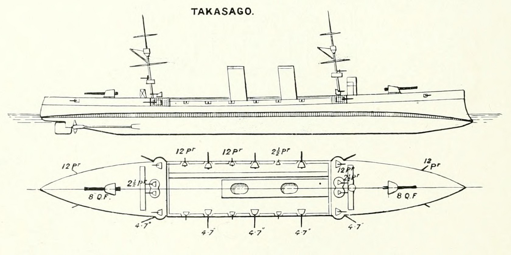 Takasago Brassay Annual 1902